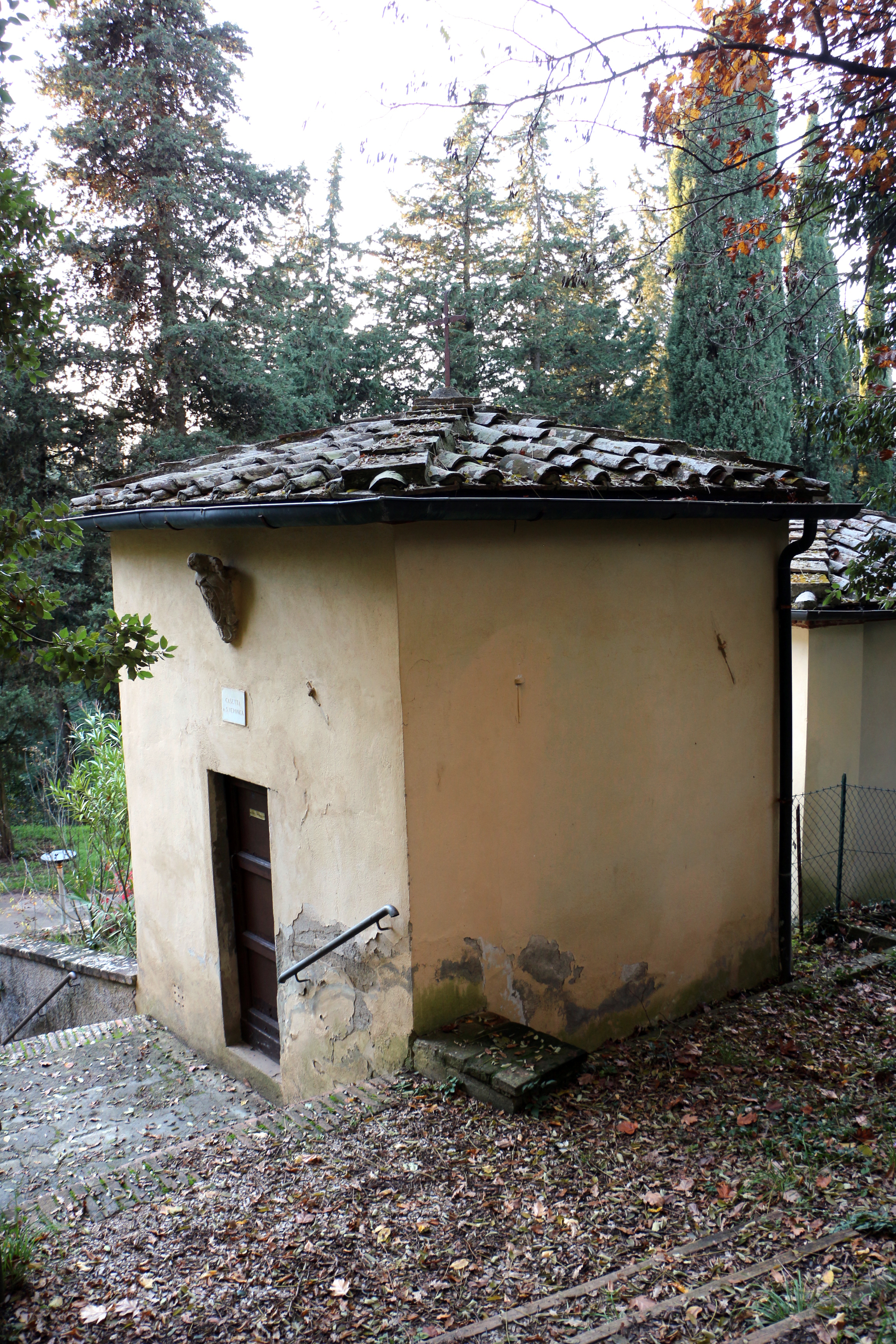 San Vivaldo Sacro Monte